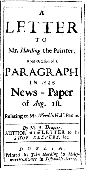 Title page from Jonathan Swift's A Letter to Mr. Harding the Printer, upon Occasion of a Paragraph in his News-Paper of August 1st, relating to Mr. Wood's Half-Pence